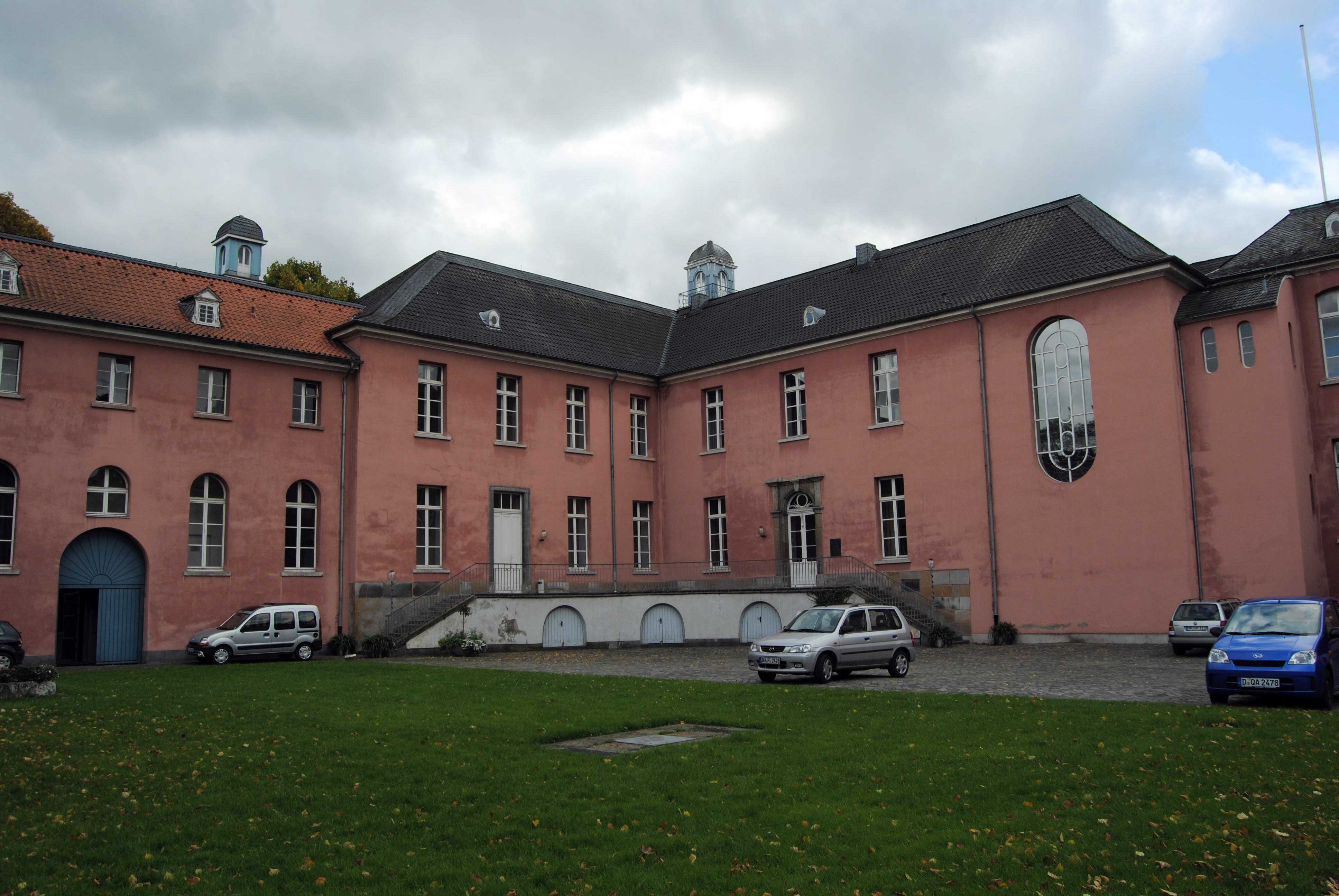 This photograph was taken with a Nikon D3000. This image shows a heritage building in Germany, located in the North Rhine-Westphalian city Düsseldorf (no. 520).